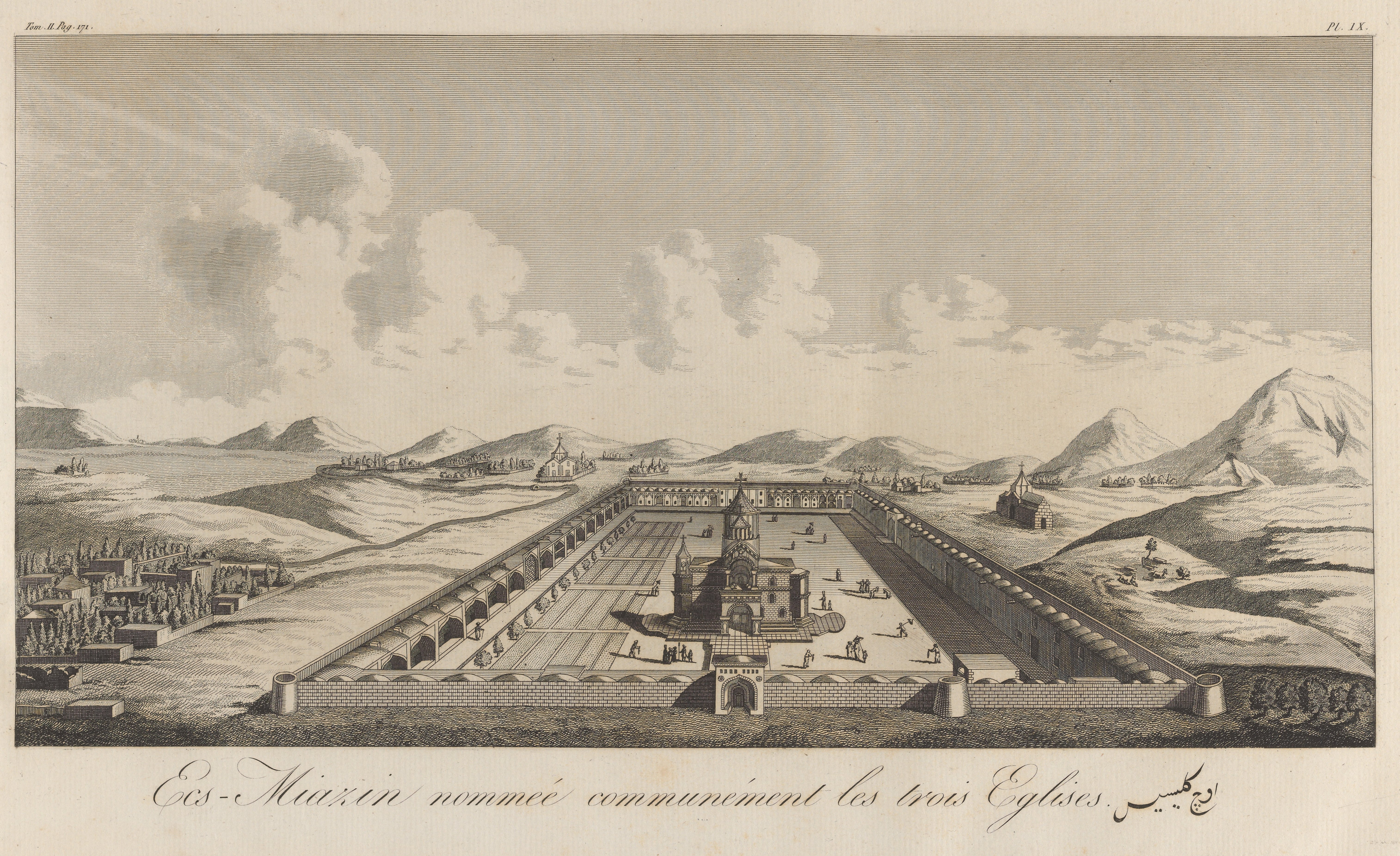 The Etchmiadzin Cathedral and the surrounding according to French traveler Jean Chardin